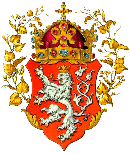 Artistic tribute of (unofficial) coat of arms of the Kingdom of Bohemia under austro-hungarian rule by Hugo Gerhard Ströhl decorated with non-typical golden wreath.